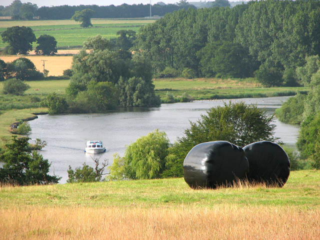 Silage bales above the River Yare Postwick Marsh is on the other side (all in square).